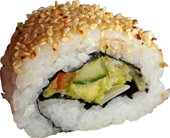 California roll sushi in Sakura sushi restaurant. Mikkeli, Finland.